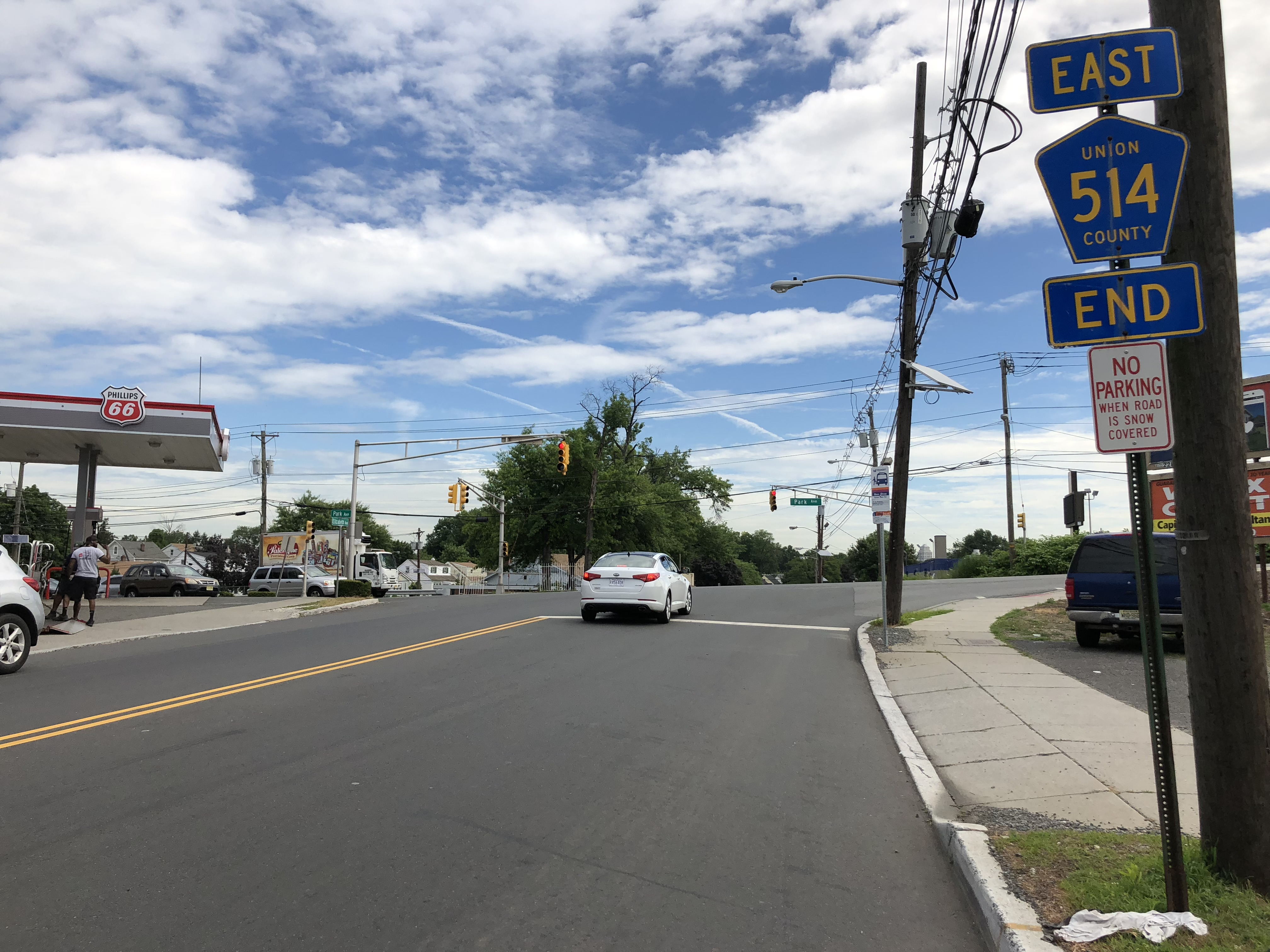 View east along Union County Route 514 (Elizabeth Avenue) at Union County Route 616 (Park Avenue) in Linden, Union County, New Jersey